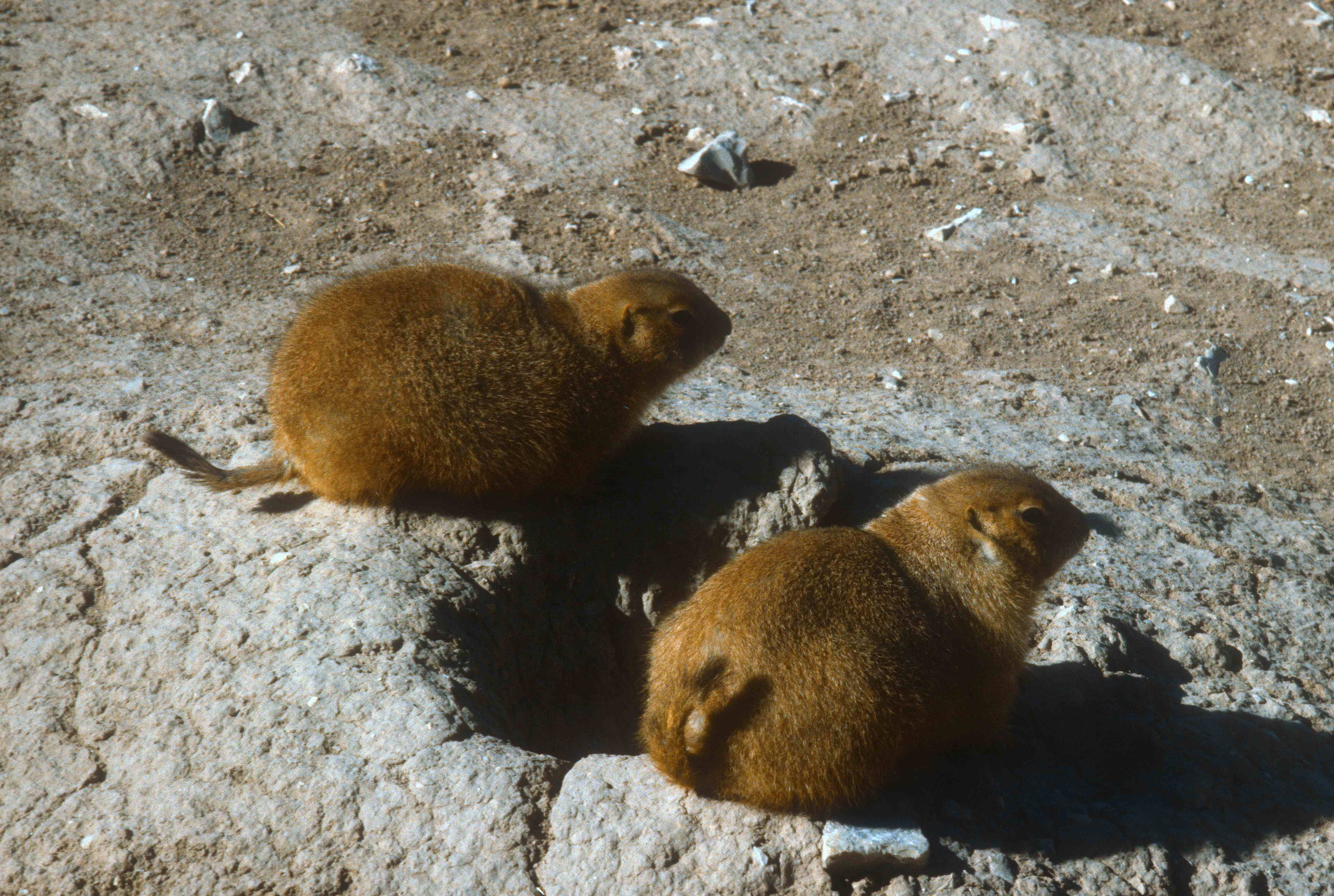 Gunnison's Prairie Dog Living Desert Museum (from 33mm slide) Date unknown